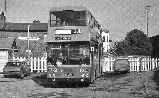 Bus, Donabate station. A Bombardier bus, in the Dublin City fleet of CIE, waits outside Donabate station on service no 33B – Portrane – Swords via Donabate station.